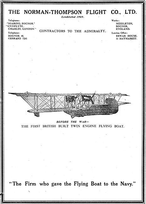 Scan of a Norman Thompson Flight Company Ltd advertisement from the Aeroplane, 2 May 1917.